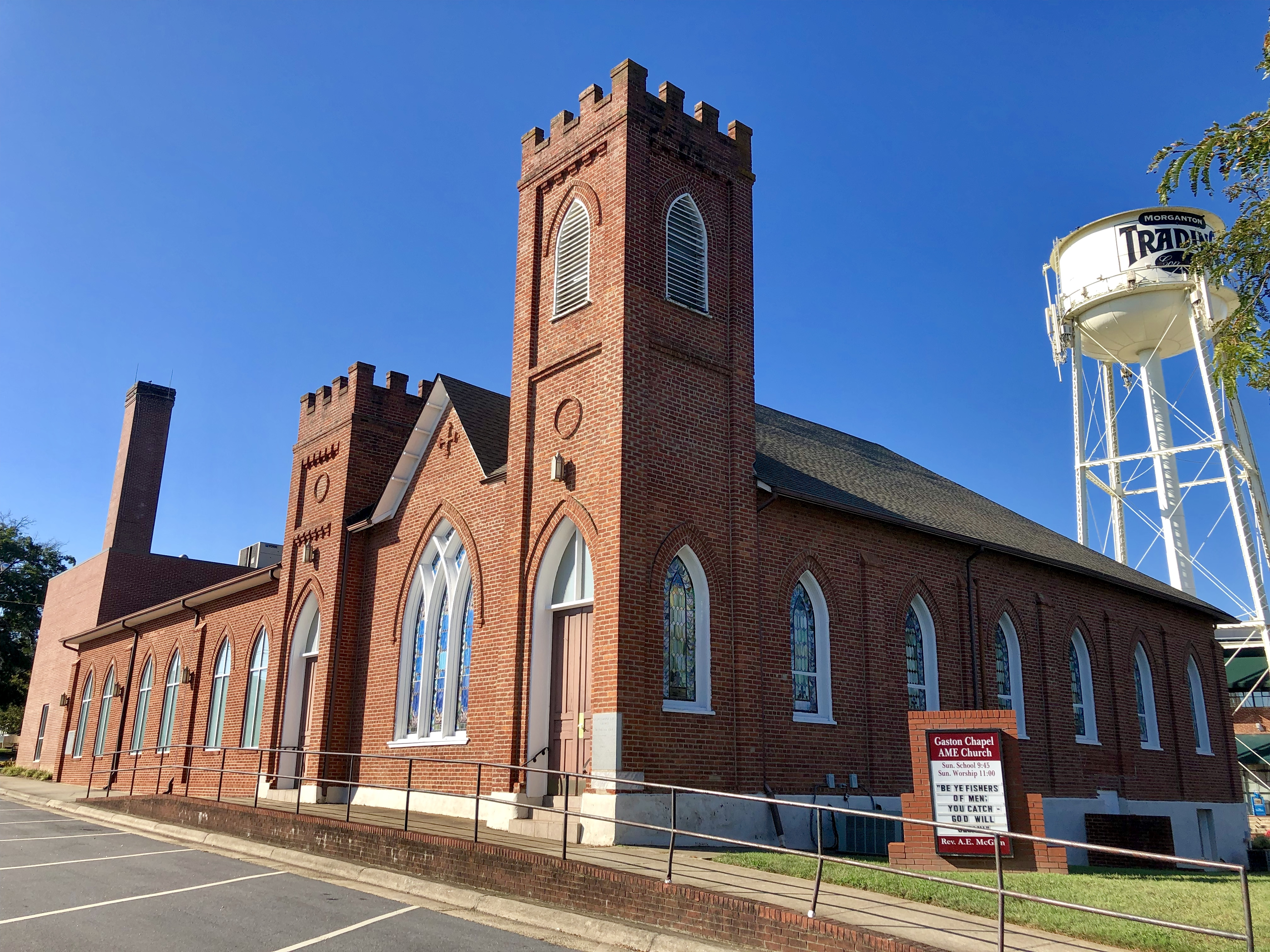 This is the Gaston Chapel African Methodist Episcopal Church, located on Bouchelle Street in Morganton, North Carolina. Constructed between 1900 and 1911, the church was listed on the National Register of Historic Places in 1984.